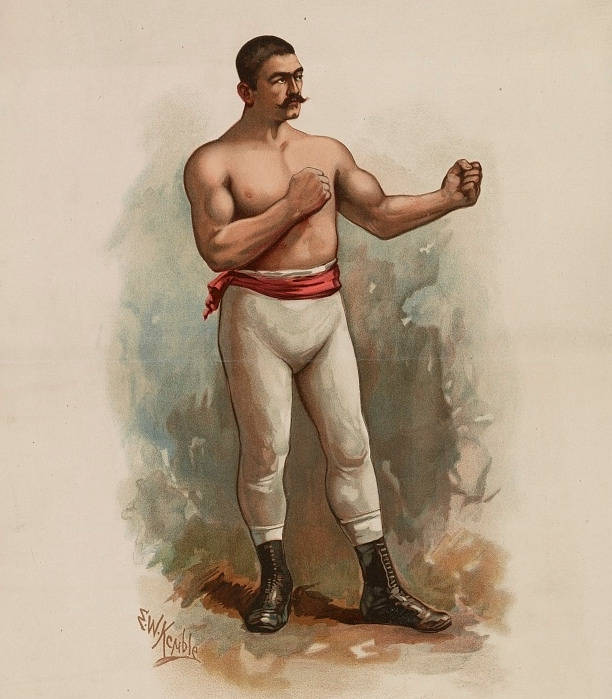 “John L. Sullivan, champion pugilist of the world” – an E.W. Kemble from 1883, the year that Sullivan began his tour of America - See more at